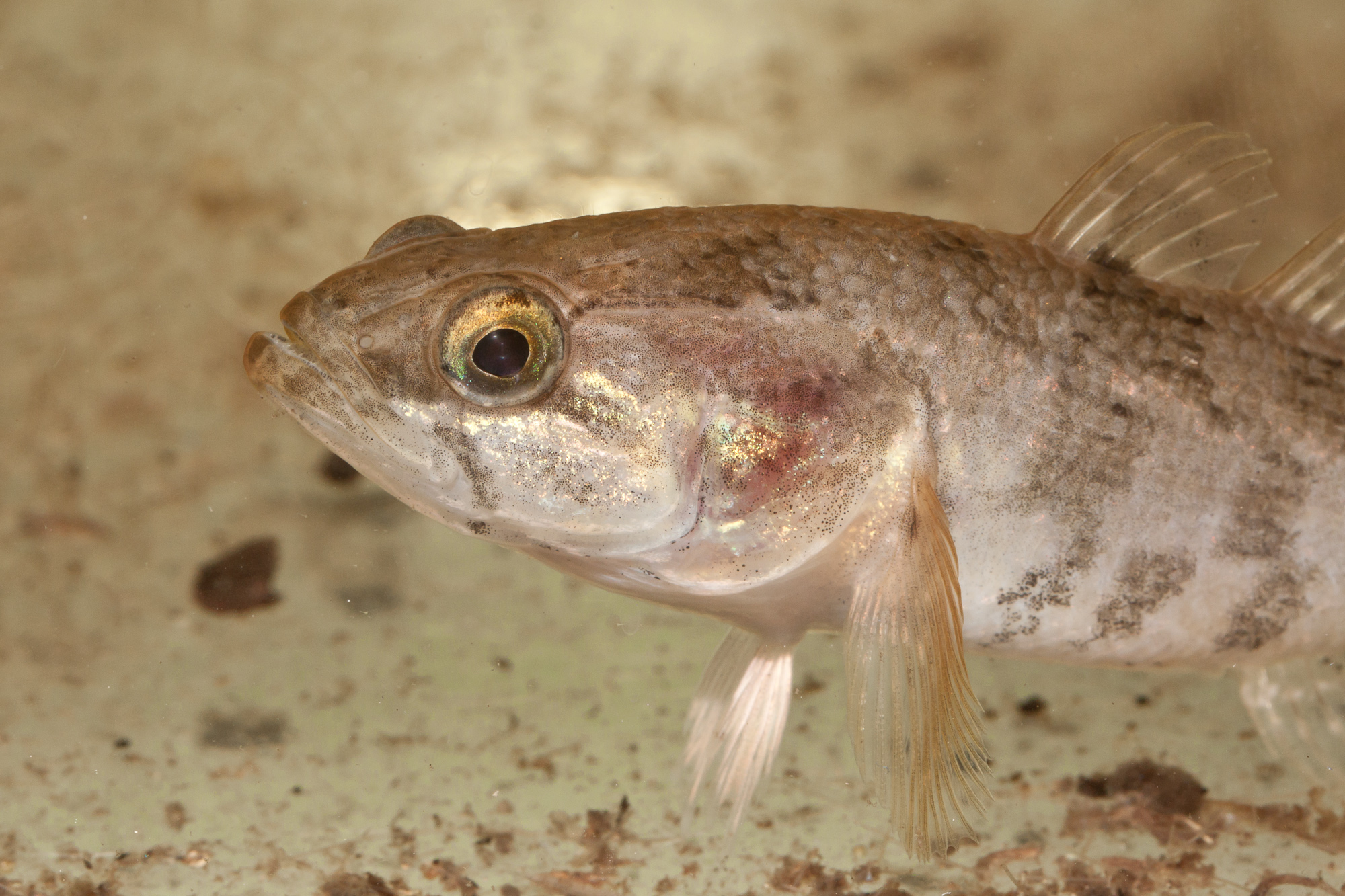 Chinese sleeper (Perccottus glenii) - detail of the head, freshwater fish of Odontobutidae family.